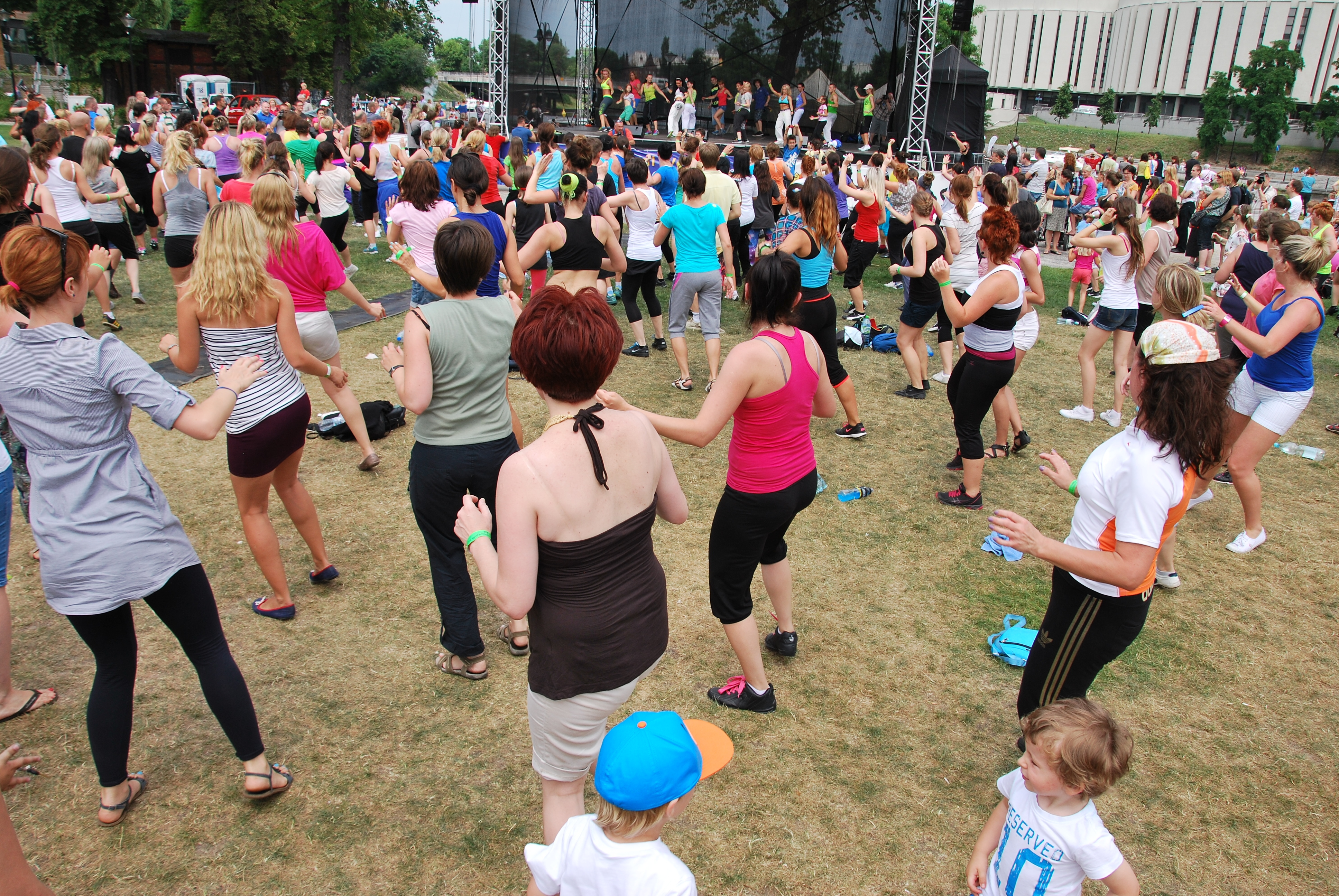 World record in zumba in Bydgoszcz June 2013